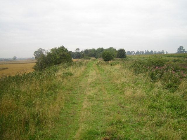 Dismantled Railway. This photo was taken on top of the embankment where the Lincoln to Grantham railway line used to run. Harmston station was about 1km further North from here.